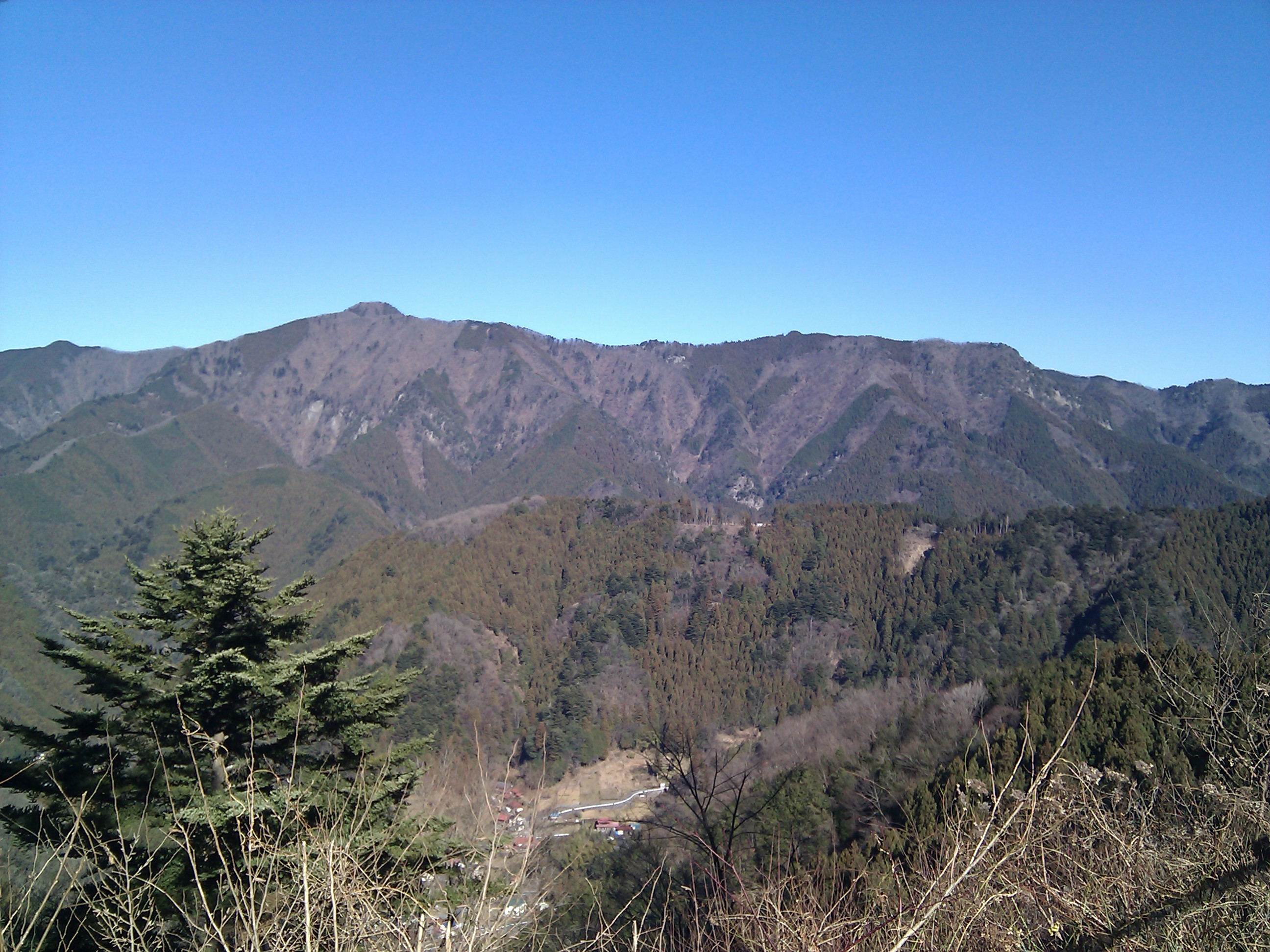 Mount Otake as seen from the SSW.